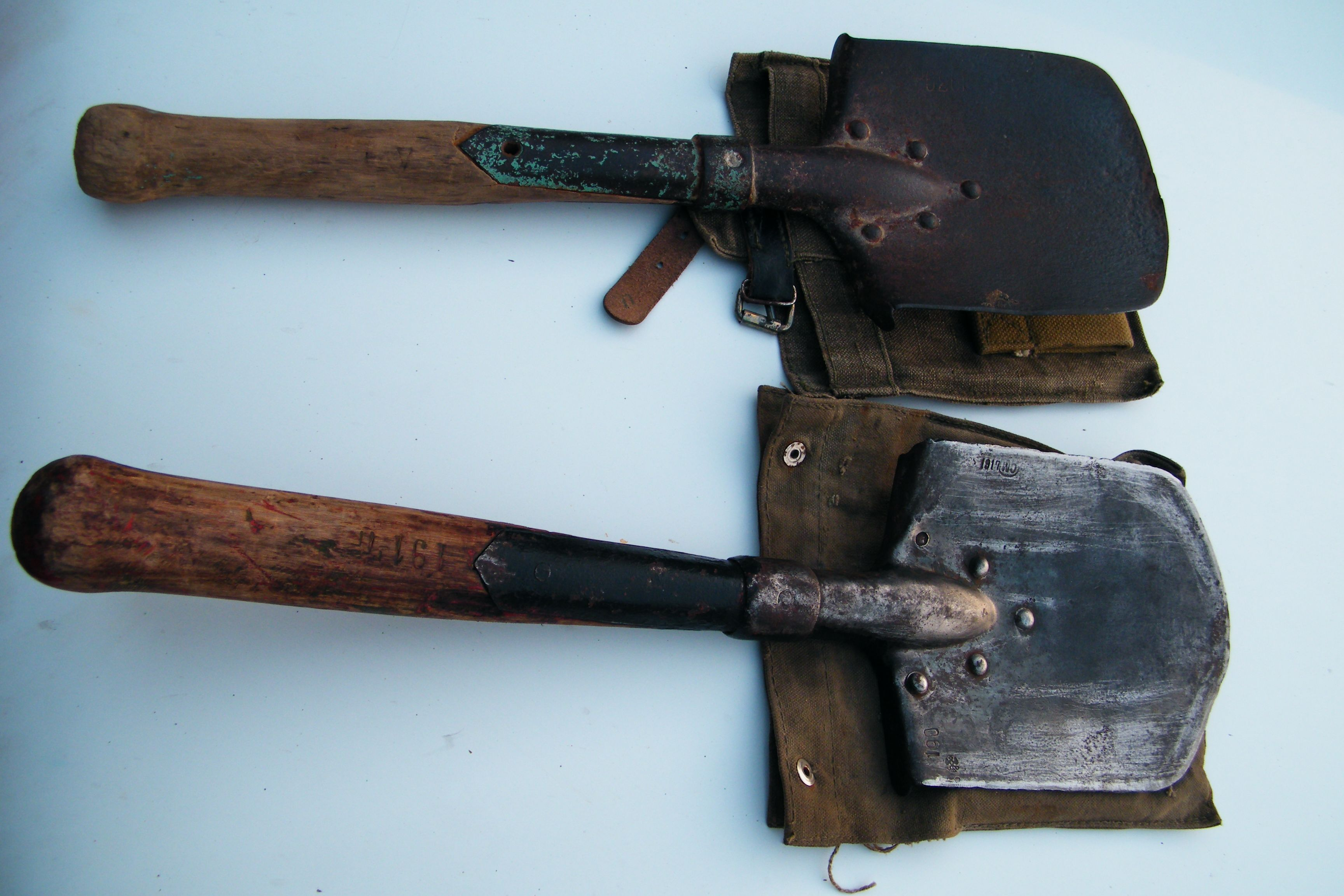 Spades